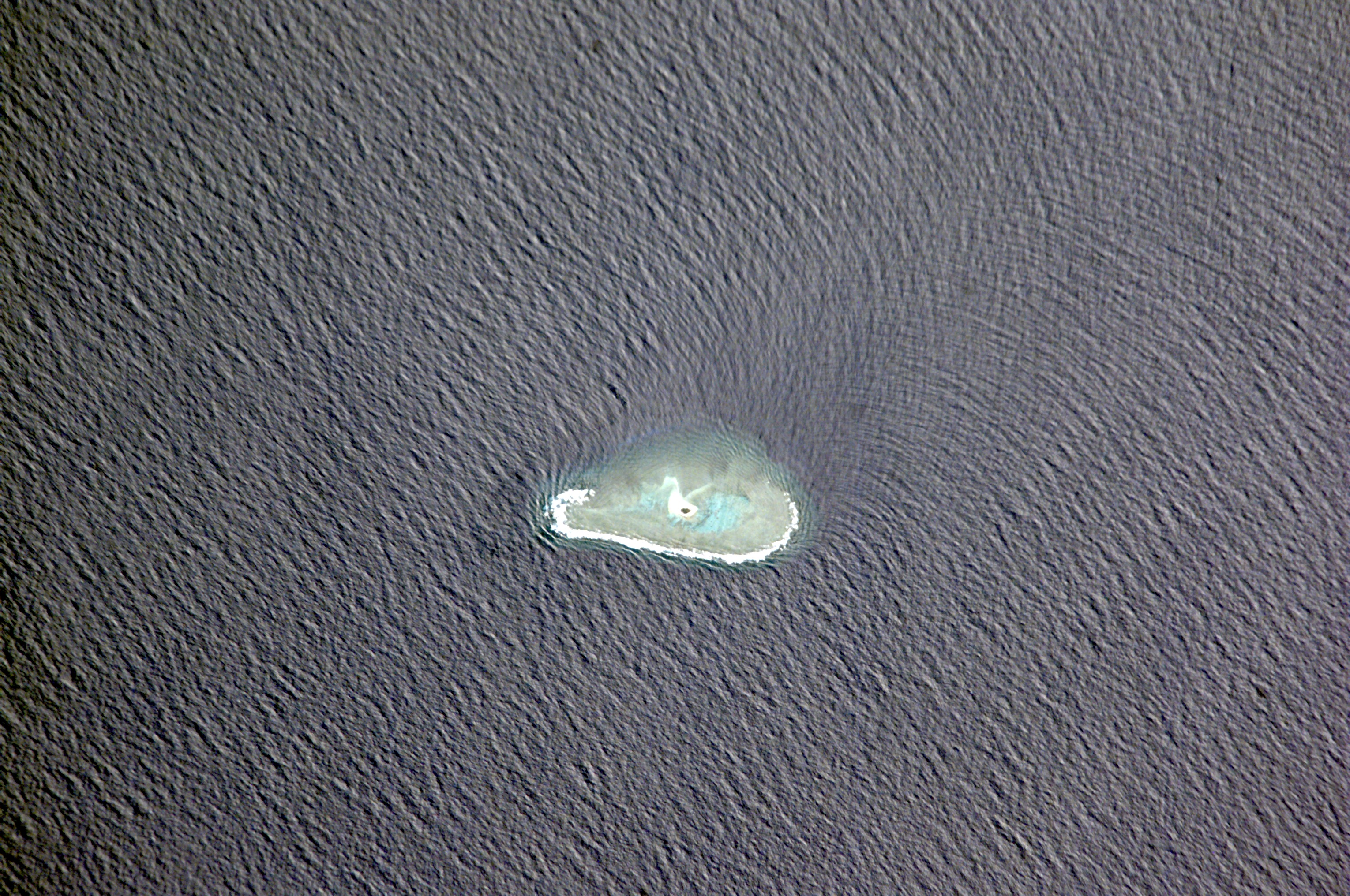 NASA astronaut image of Conway Reef (Fiji: Ceva-i-ra), Fiji Islands, Pacific Ocean